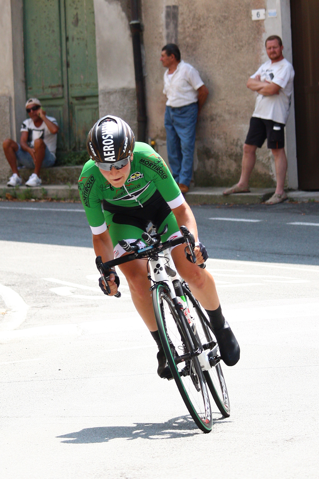 Elisa Longo Borghini during the 7th stage of Giro Rosa 2016 in Stella San Martino